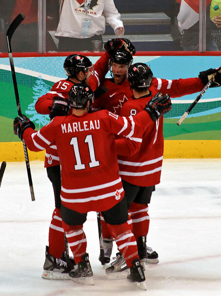 Canadian players (from left to right) Patrick Marleau, Dany Heatley, Joe Thornton and Drew Doughty celebrate a goal against Germany during the 2010 Winter Olympics in Vancouver.